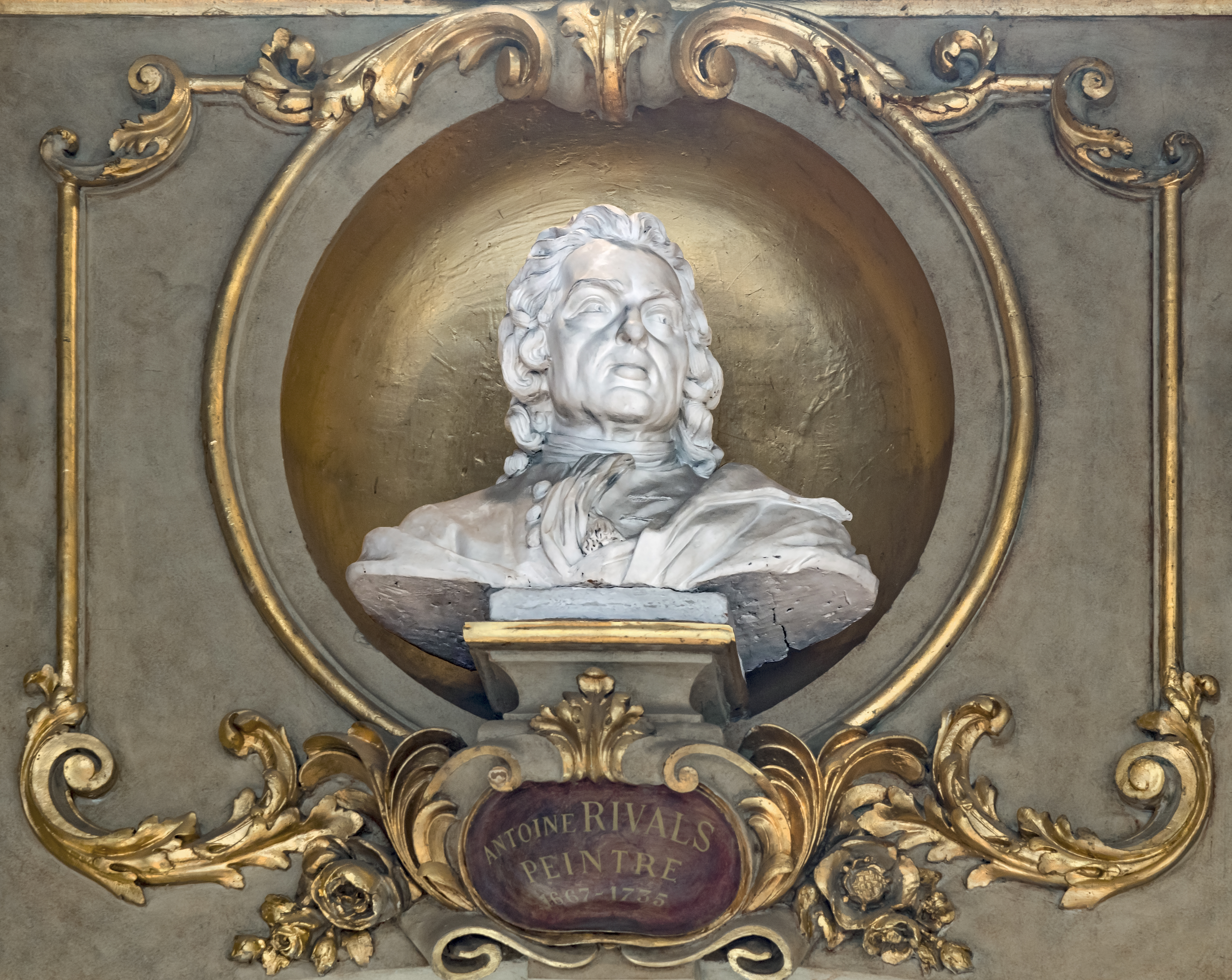 Depicted person: Antoine Rivalz – French painter